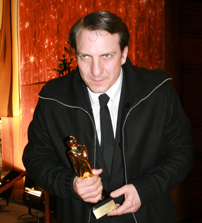 Robert Palfrader at the Romy TV awards (Hofburg Imperial Palace in Vienna)